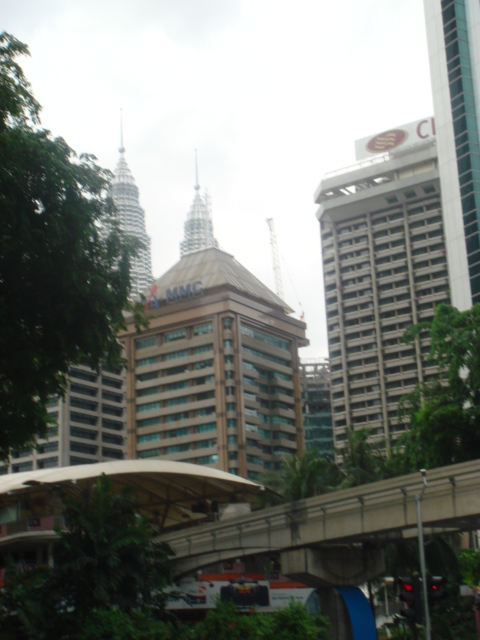 MMC headquarters